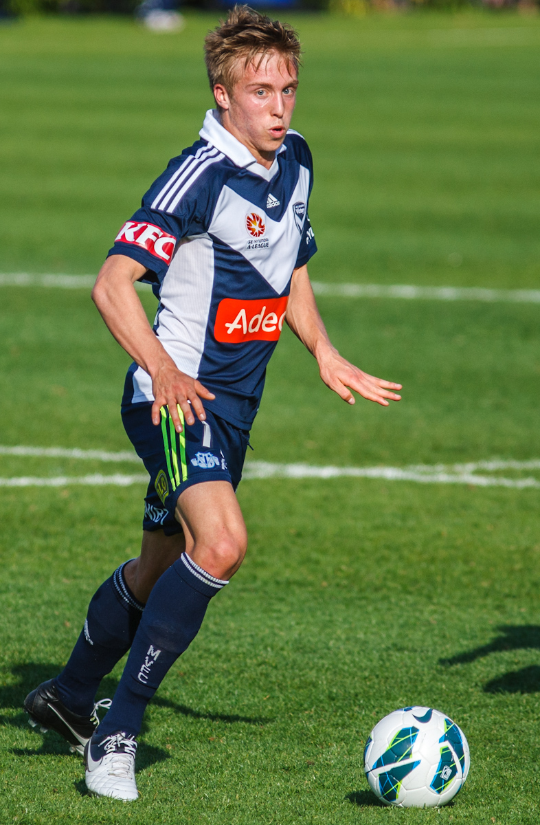 James Jeggo playing in a pre-season game between the Central Coast Mariners and Melbourne Victory on 16/09/2012.